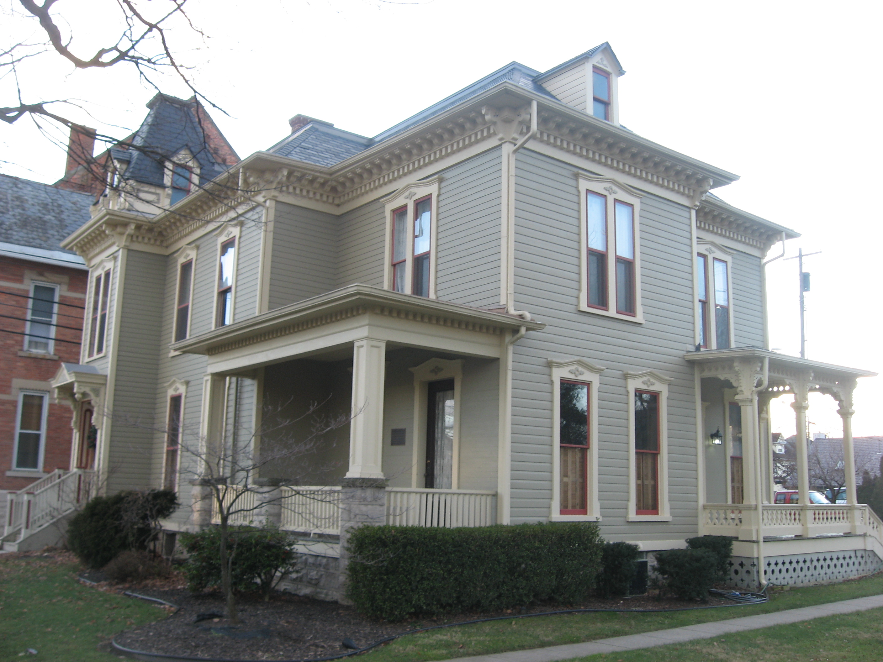 Front and northern side of the Joseph and Rachel Bartlett House, located at 212 S. Park Avenue in Fremont, Ohio, United States. Built in 1872, it is listed on the National Register of Historic Places. No longer a house, it is presently used as a law office.